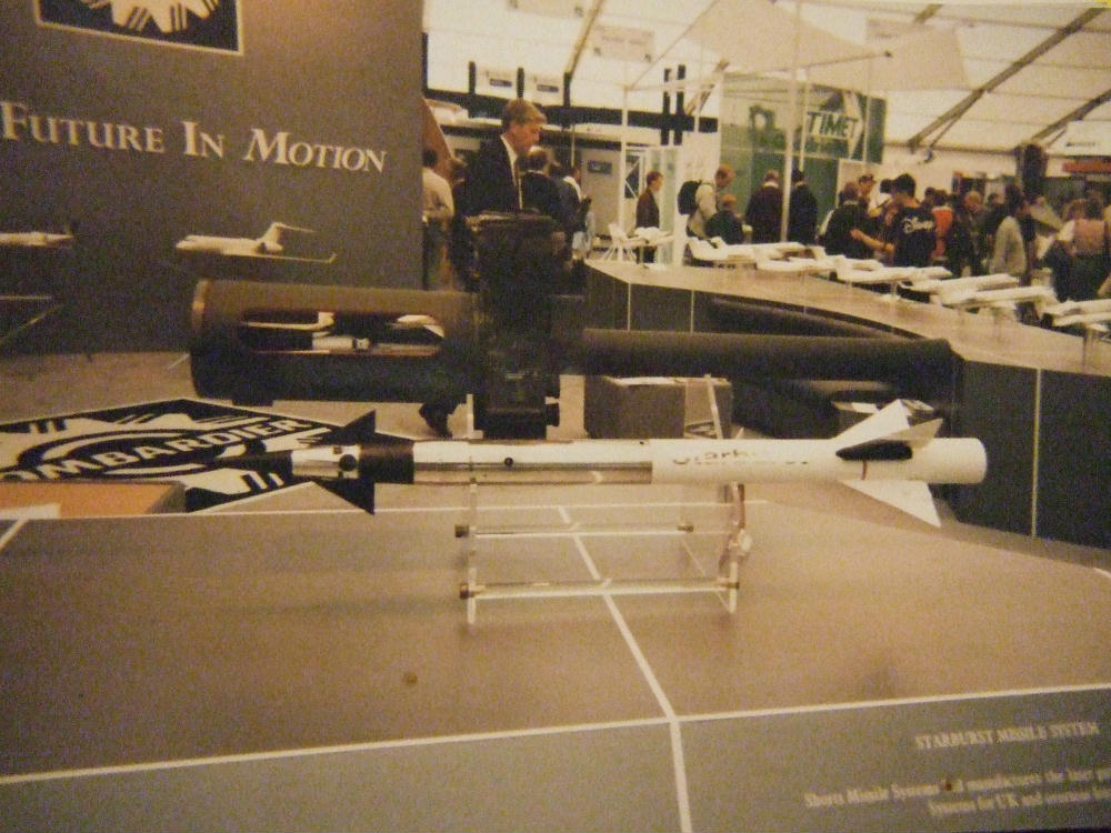 Shorts Starburst missile on display at Farnborough airshow, 1996